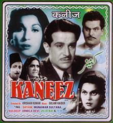 DVD cover of 1949 Pakistani film Kaneez, directed by Krishan Kumar.